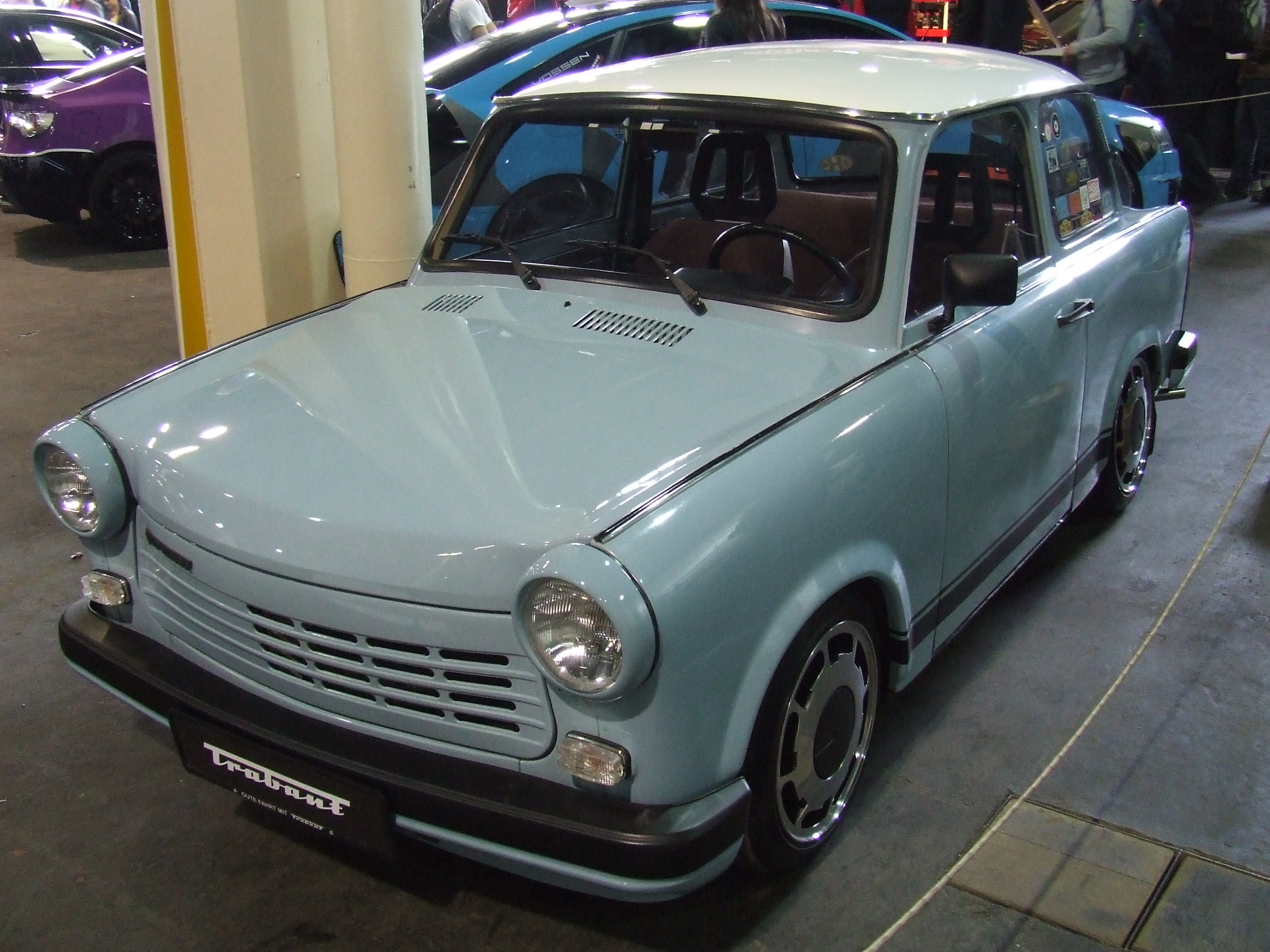 Budapest, AMTS, Nemzetközi Autó, Motor és Tuning Show 2016